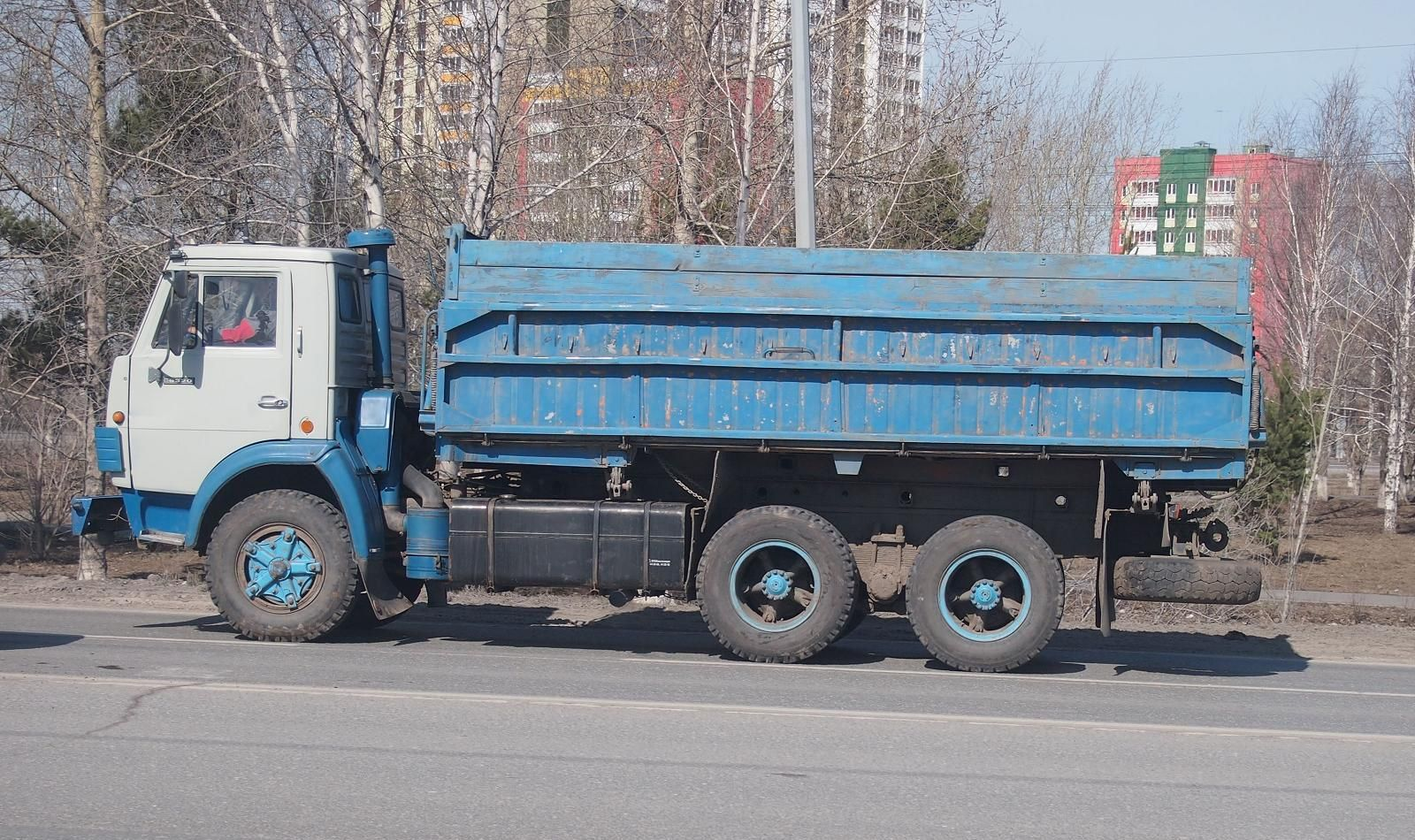 KamAZ-55102 in Tyumen (Russia)